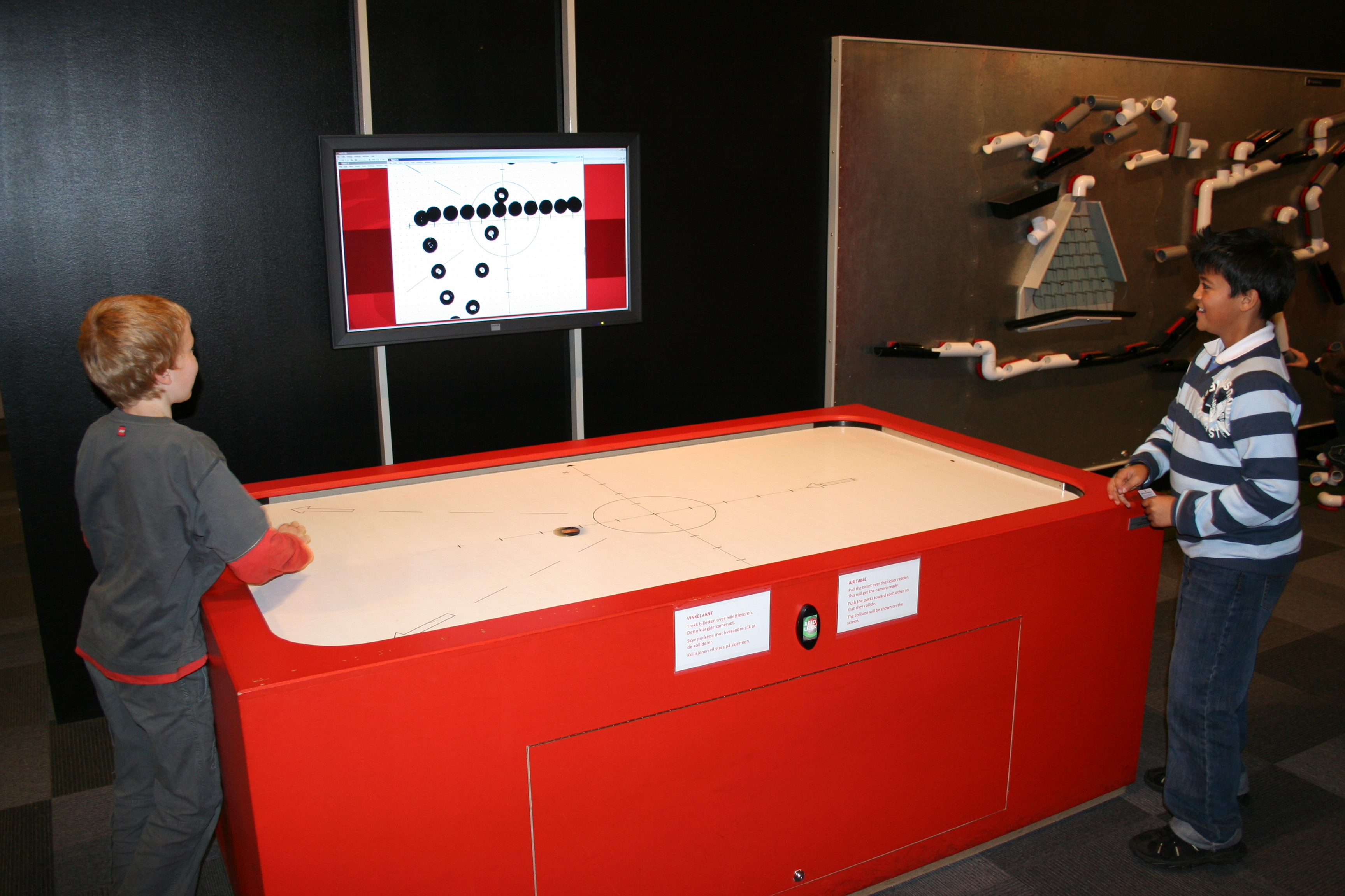 Air table, Bergen Science Centre. On this table, visitors may collide objects and observe the effect. Note screen in the bacground, where the collision has been photographed.